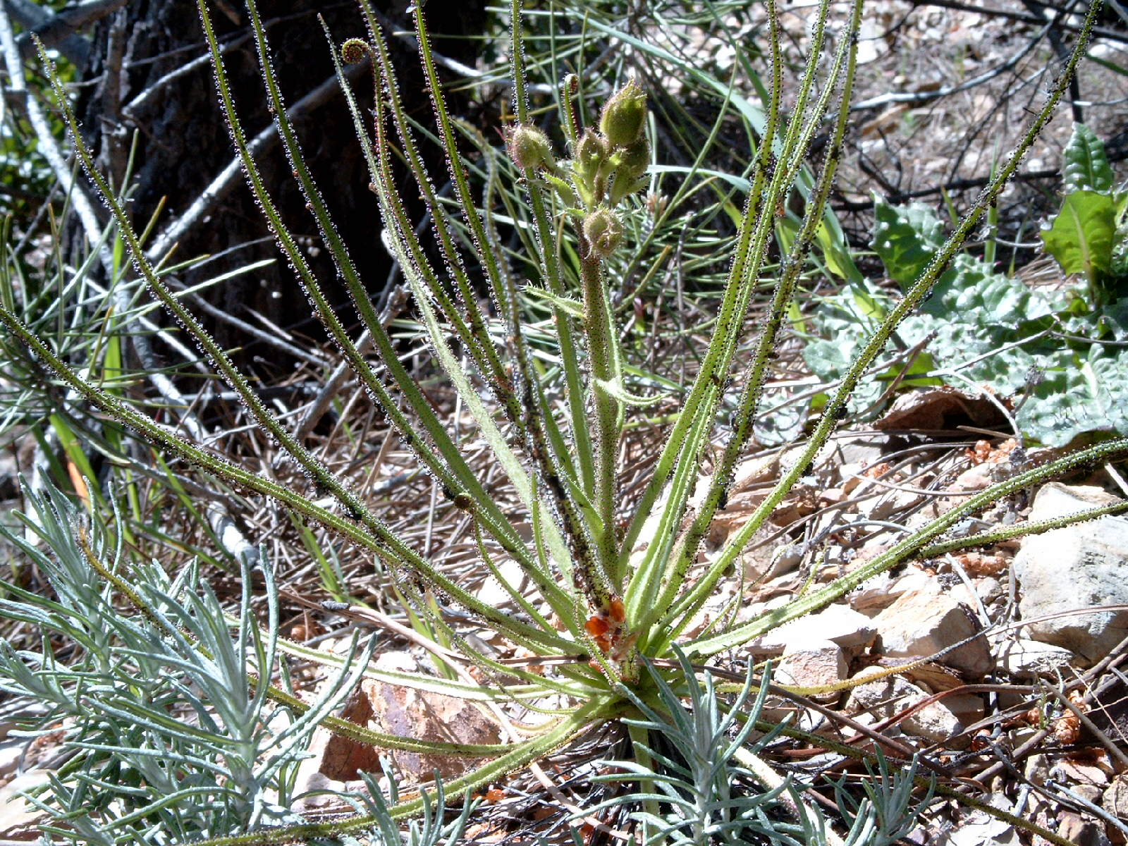 Name Drosophyllum lusitanicum Familiy Drosophyllaceae